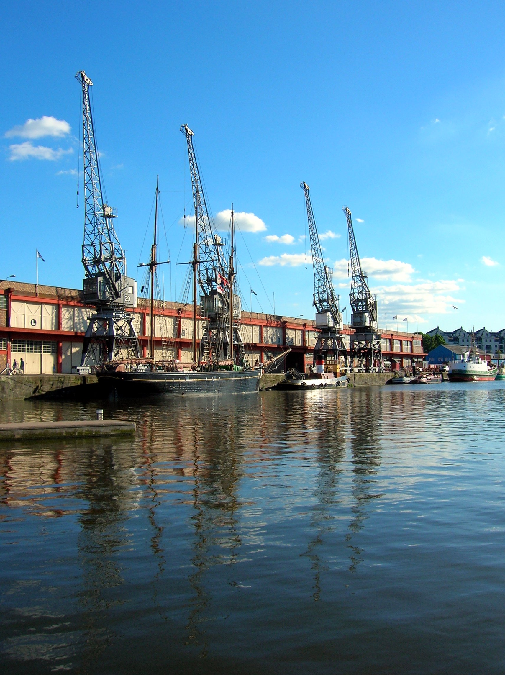 The old dockside cranes at Prince's Wharf in Bristol. I think the reflections look better in the large size.